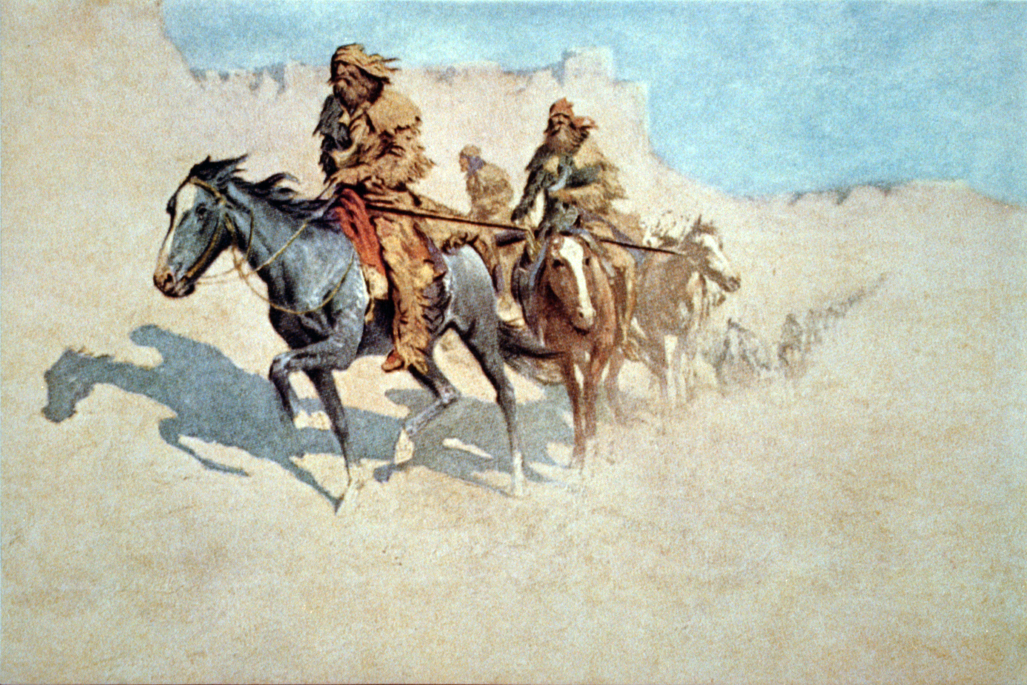 Jedediah Smith's party crossing the burning Mojave Desert during the 1826 trek to California. Color halftone reproduction of painting. Illustration in: American Heritage Book of the Pioneer Spirit (American Heritage Publishing Company, 1959), p. 166. Originally appeared in Collier's, 1906.